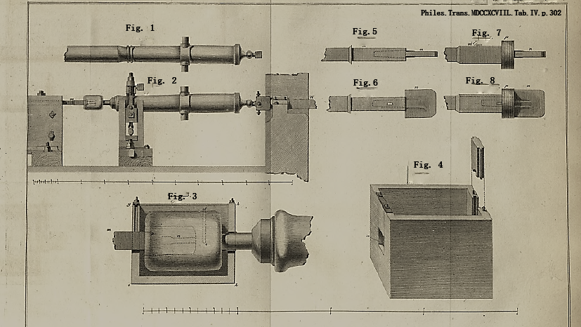 It is a draw of Rumford' s experiment